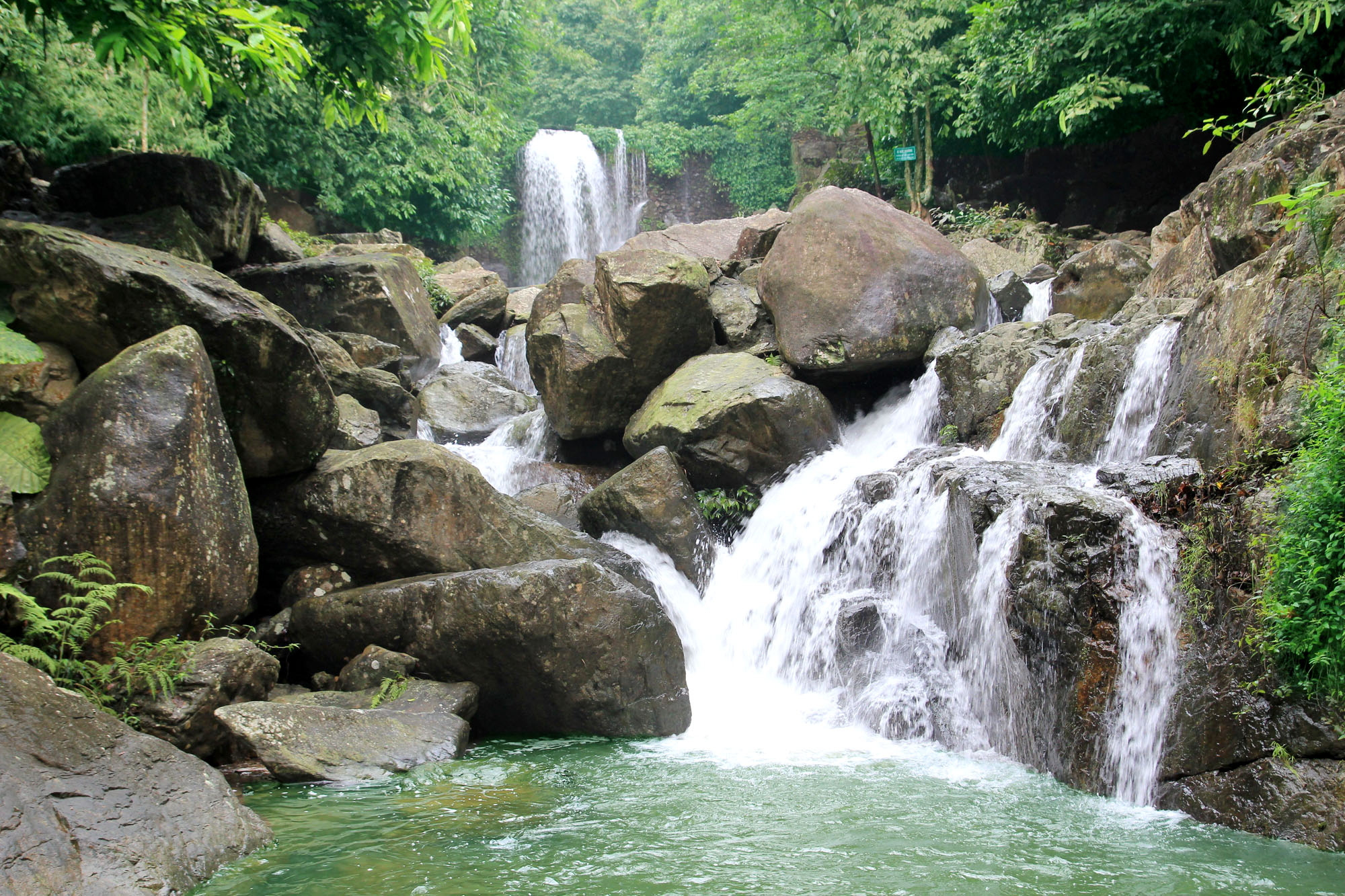 Khoang Xanh Suối Tiên - Ba Vì - Hà Nội